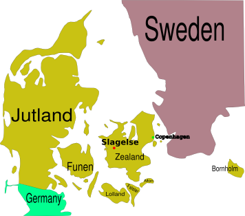 Locator map of Slagelse in Denmark.